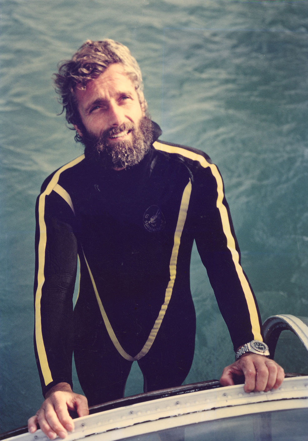 Philippe returns from a dive off the island of Isabella, near Mazatlan, Mexico while filming seabirds.